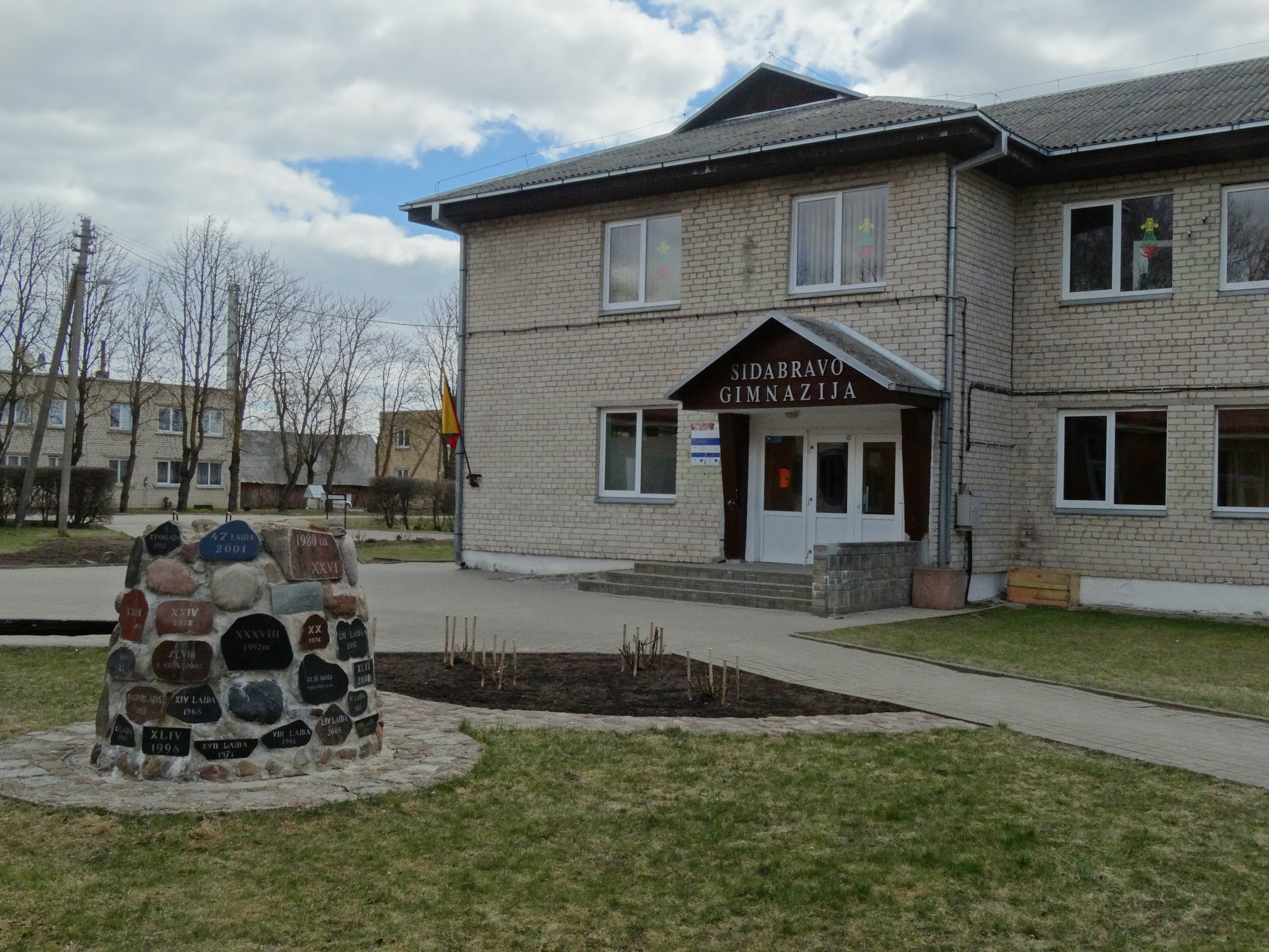 Gymnasium, Sidabravas, Radviliškis District, Lithuania